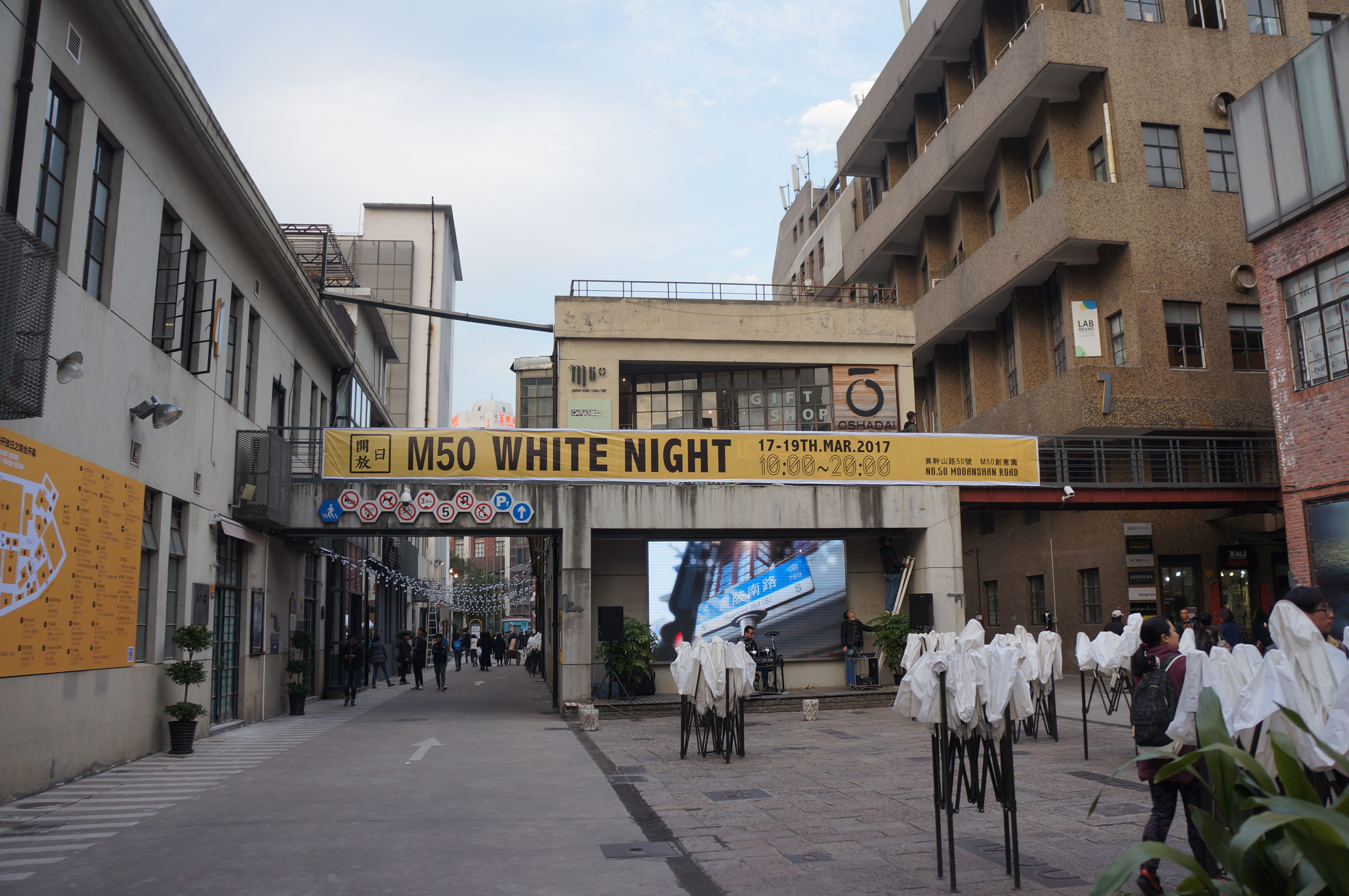 201703 M50 Creative Park, much smaller but still interesting compared to 798